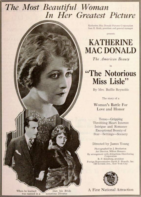 Advertisement for the American drama film Notorious Miss Lisle (1920) with Katherine MacDonald and Nigel Barrie, on page 29 of the August 7, 1920 Exhibitors Herald.